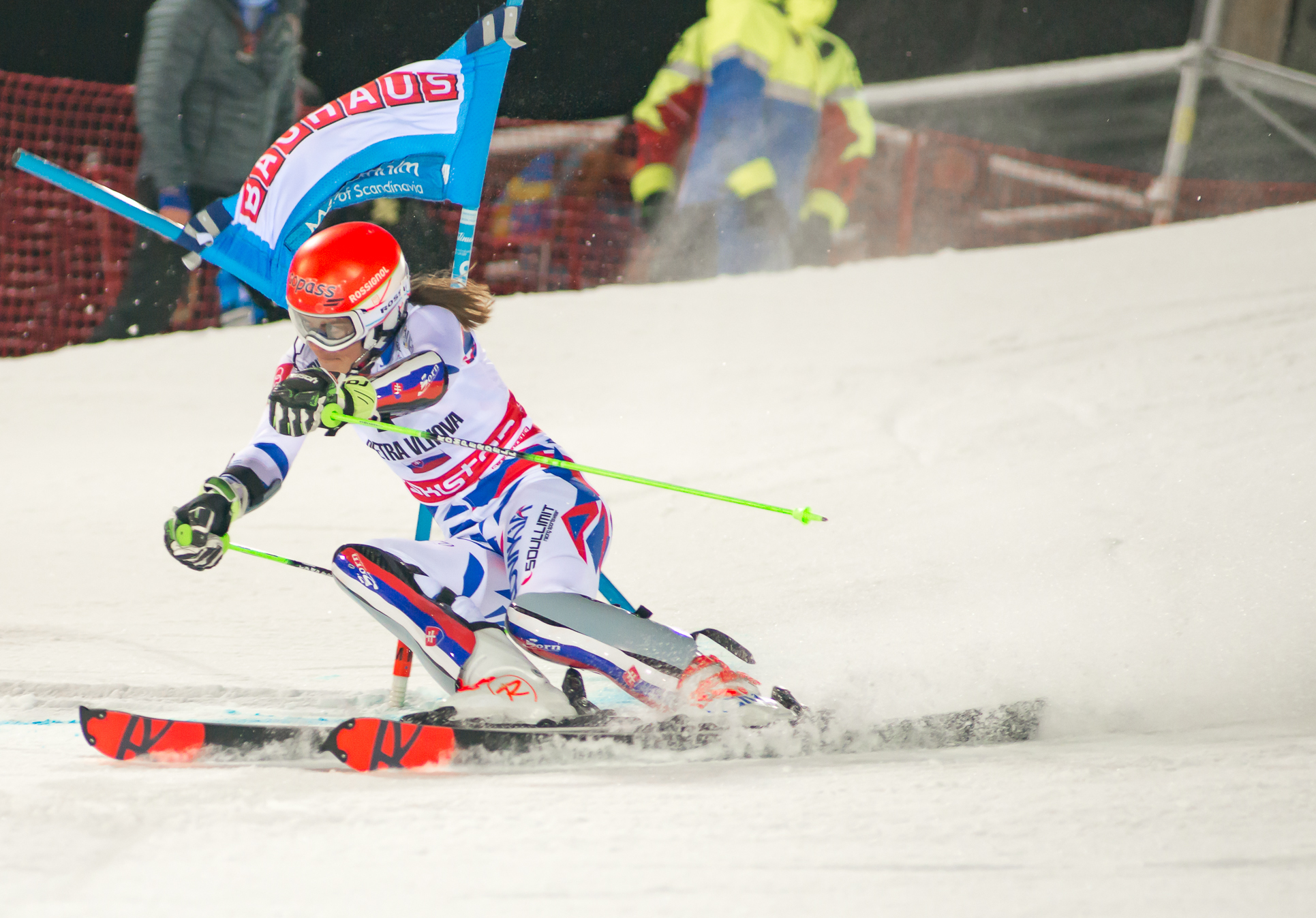 Pose of Petra Vlhova Photo by Roland Osbeck